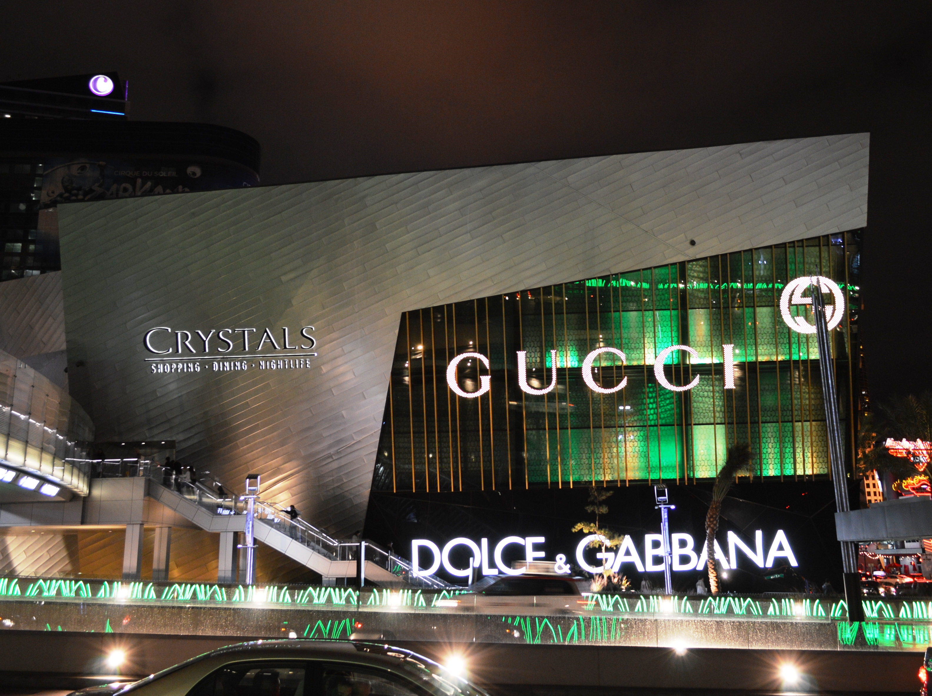 The Crystals on the Las Vegas Strip, in front of Aria Resort and Casino, next to the Cosmopolitan and across from Grand Chateau.